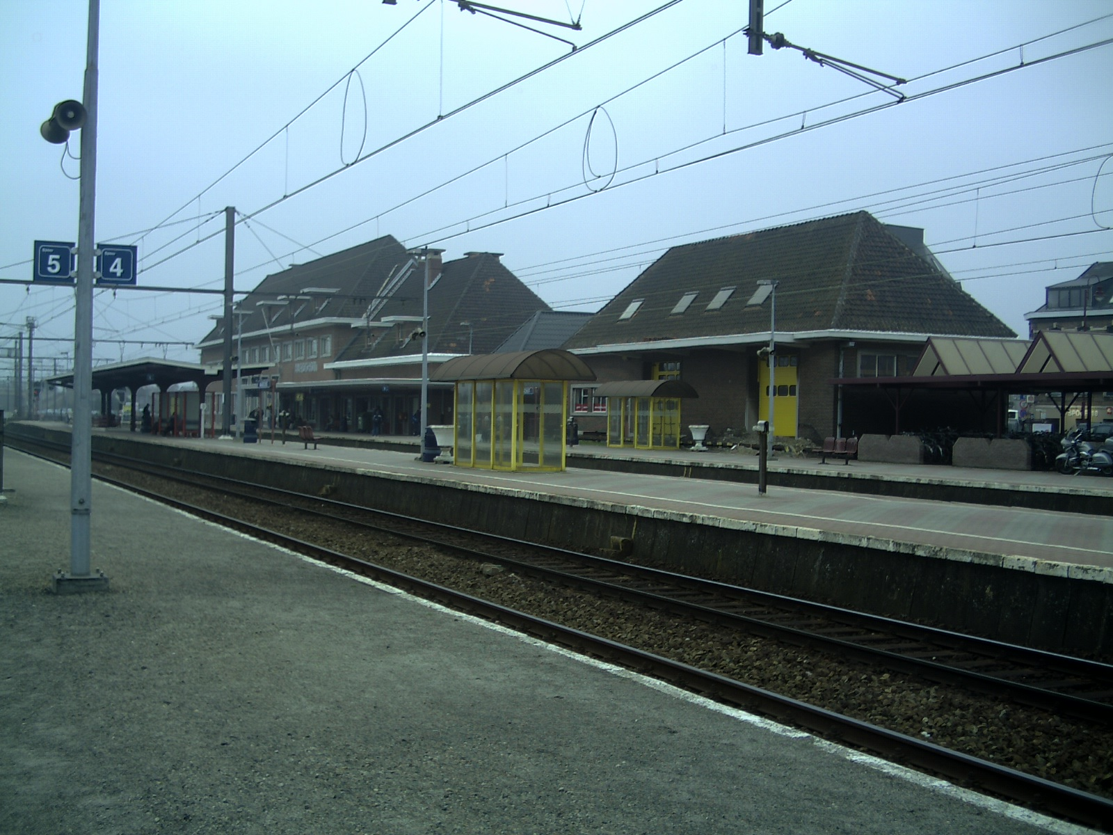 Trainstation Aarschot (Belgium) seen from platform 5